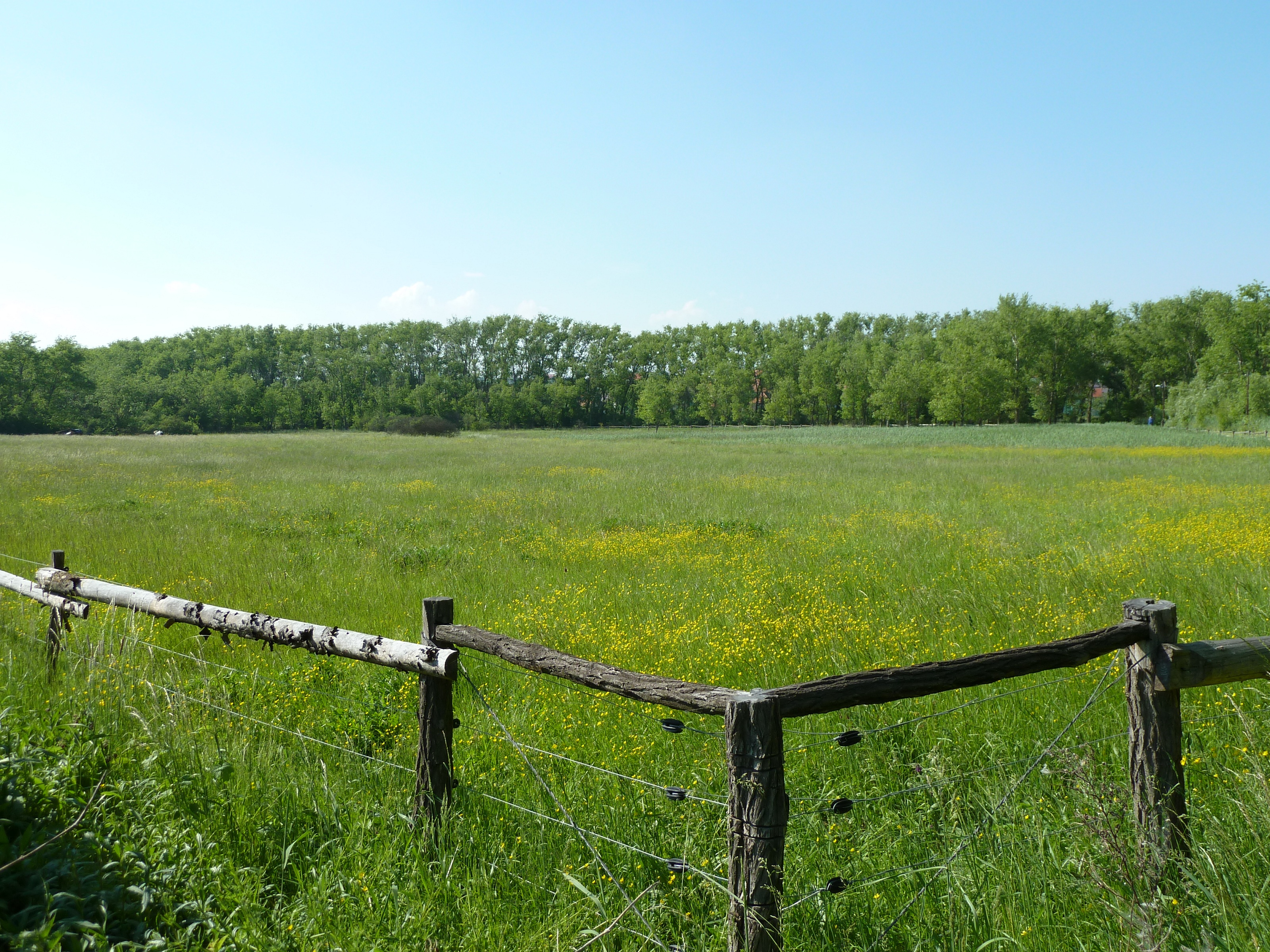 NNR Slanisko u Nesytu (south Moravia, Czech Republic)